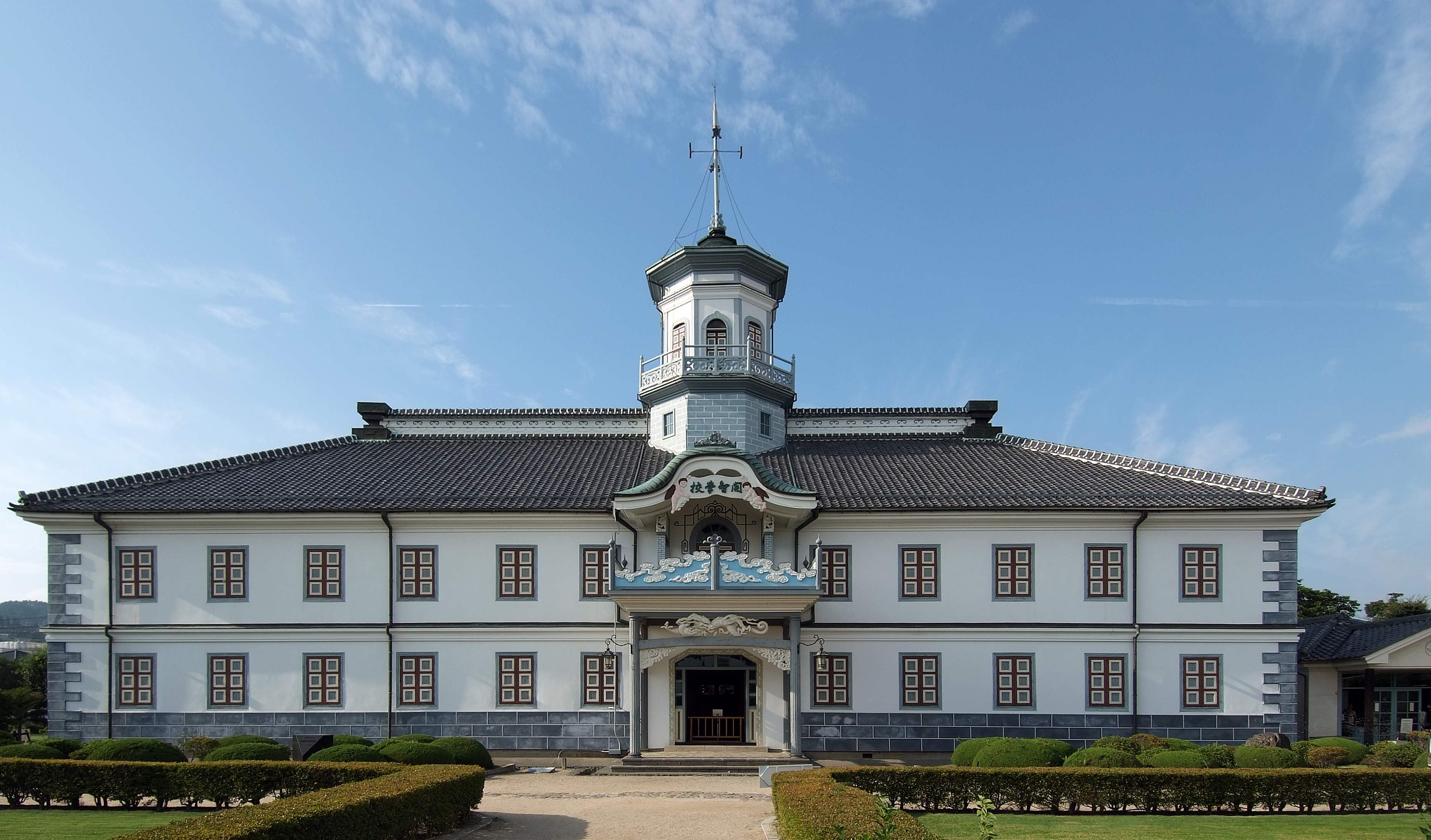 Former Kaichi School in Matsumoto, Japan.